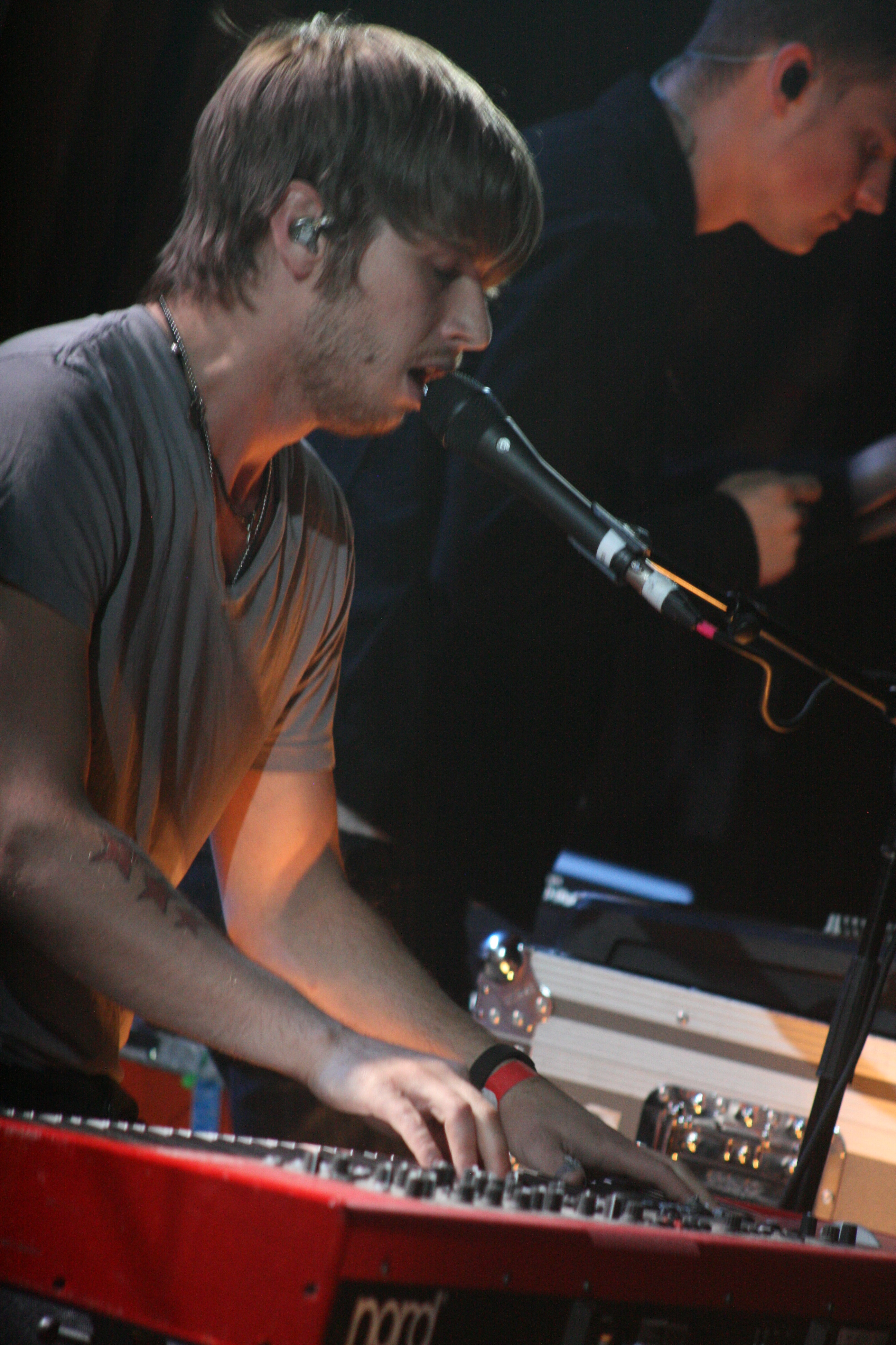 Mark Foster of Foster the People playing at the Bluebird Theater in Denver, Colorado.